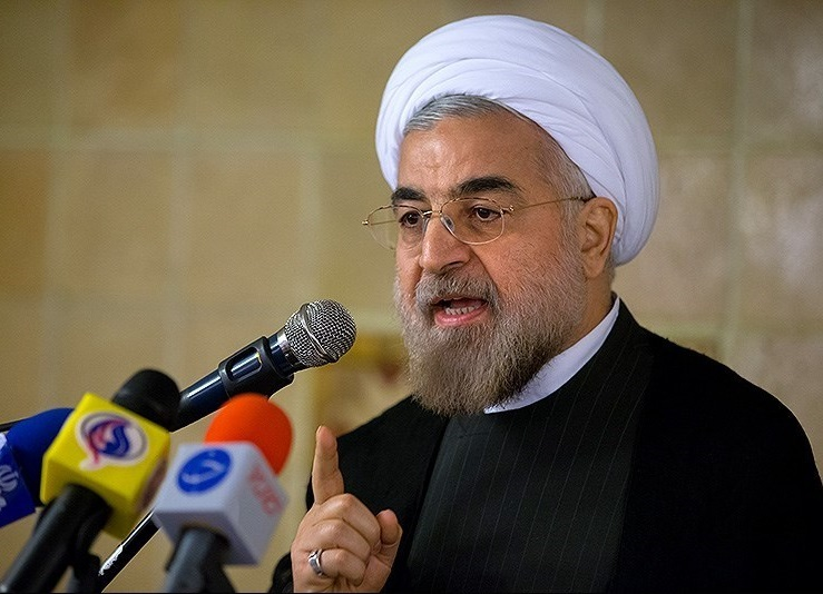 Presidential candidate Hassan Rouhani in meeting with professors of Tehran universities